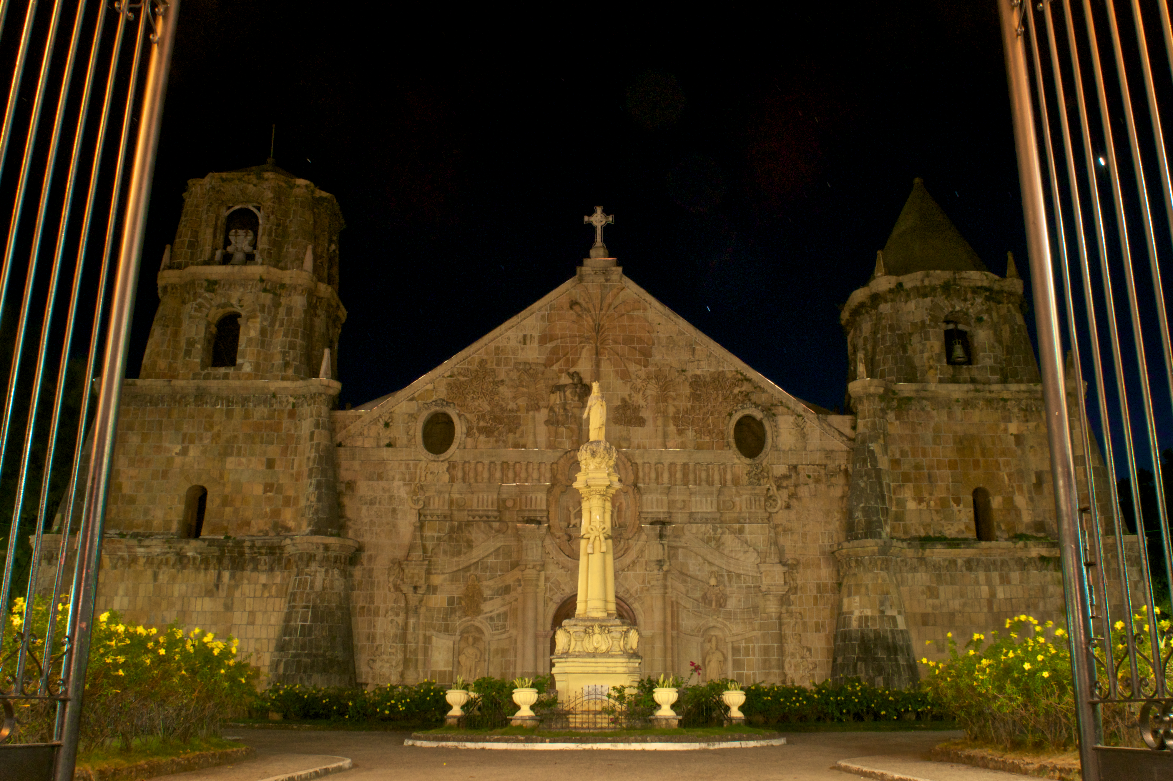 Long exposure night photography of Miagao Church at the entrance gates.